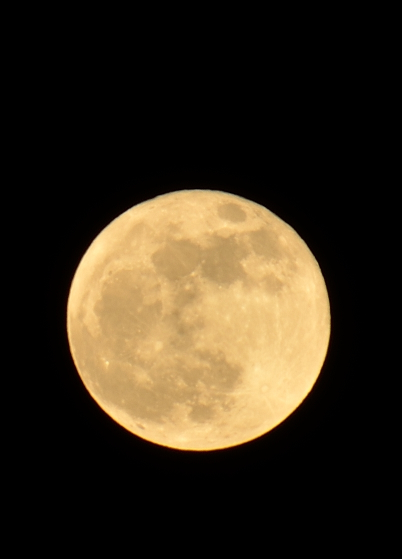 Full moon on November 28, 2012. This day is celebrated as "Dev Diwali". Unique position of this Moon; the planet Jupiter was at its closest (seen as a bright spot at the 11 o'clock position north-west of the moon), in the evening skies of Arizona.